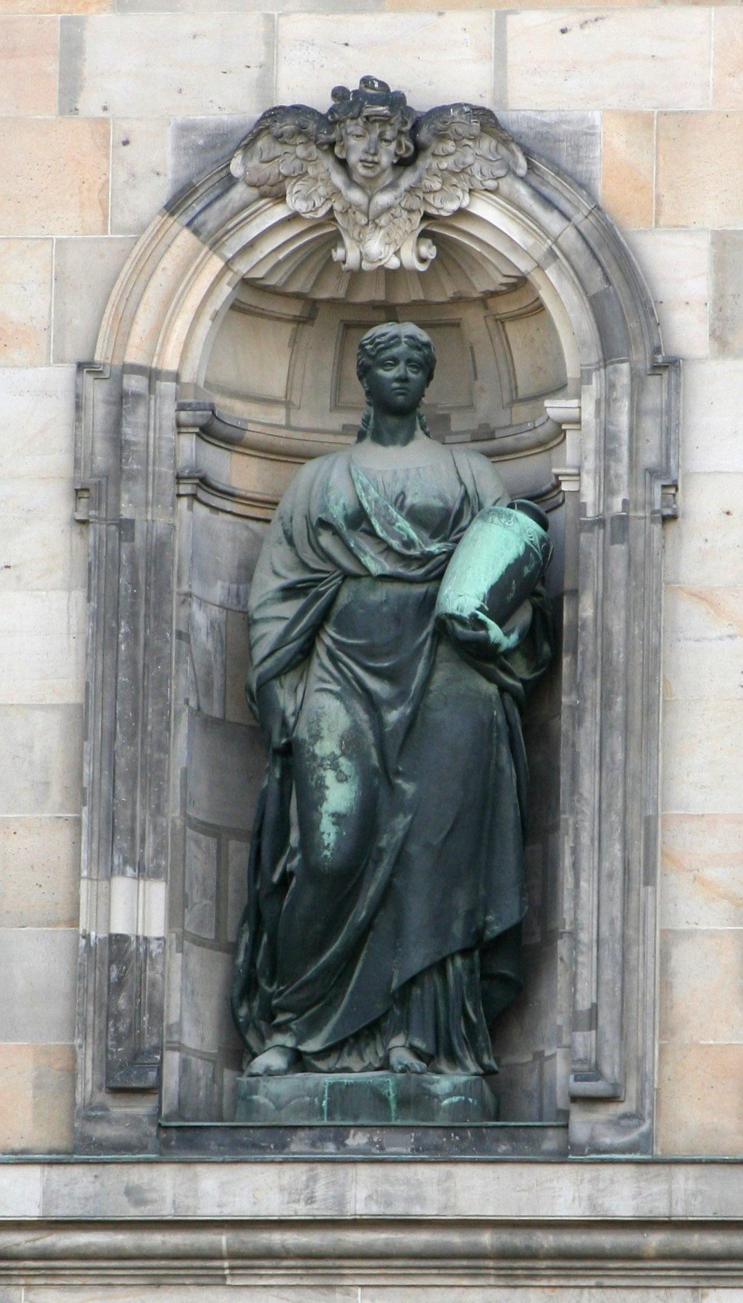 Berliner Dom - allegories of sovereign virtues at the northern facade